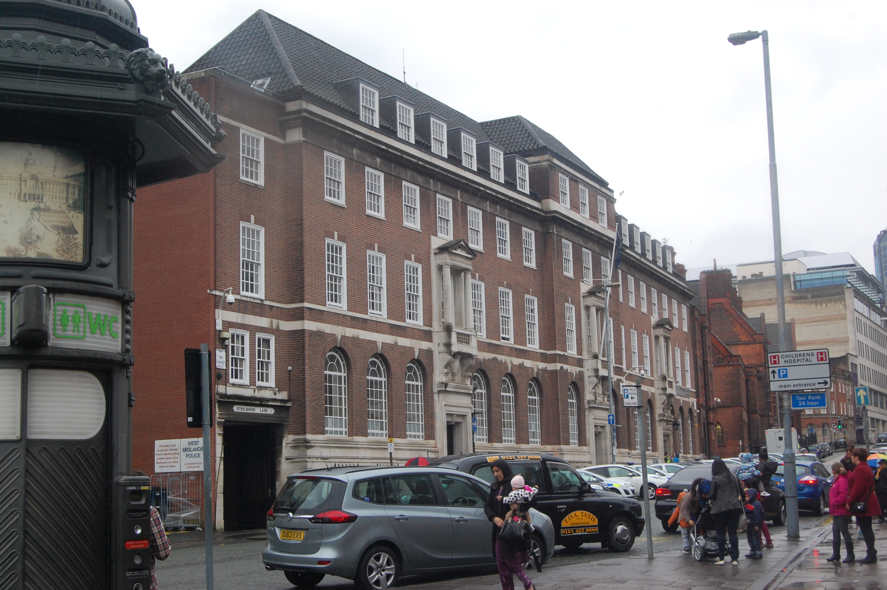 Steelhouse Lane police station, Birmingham, England. Victorian cell block at far end. (Taken in heavy rain - better pics to follow!)